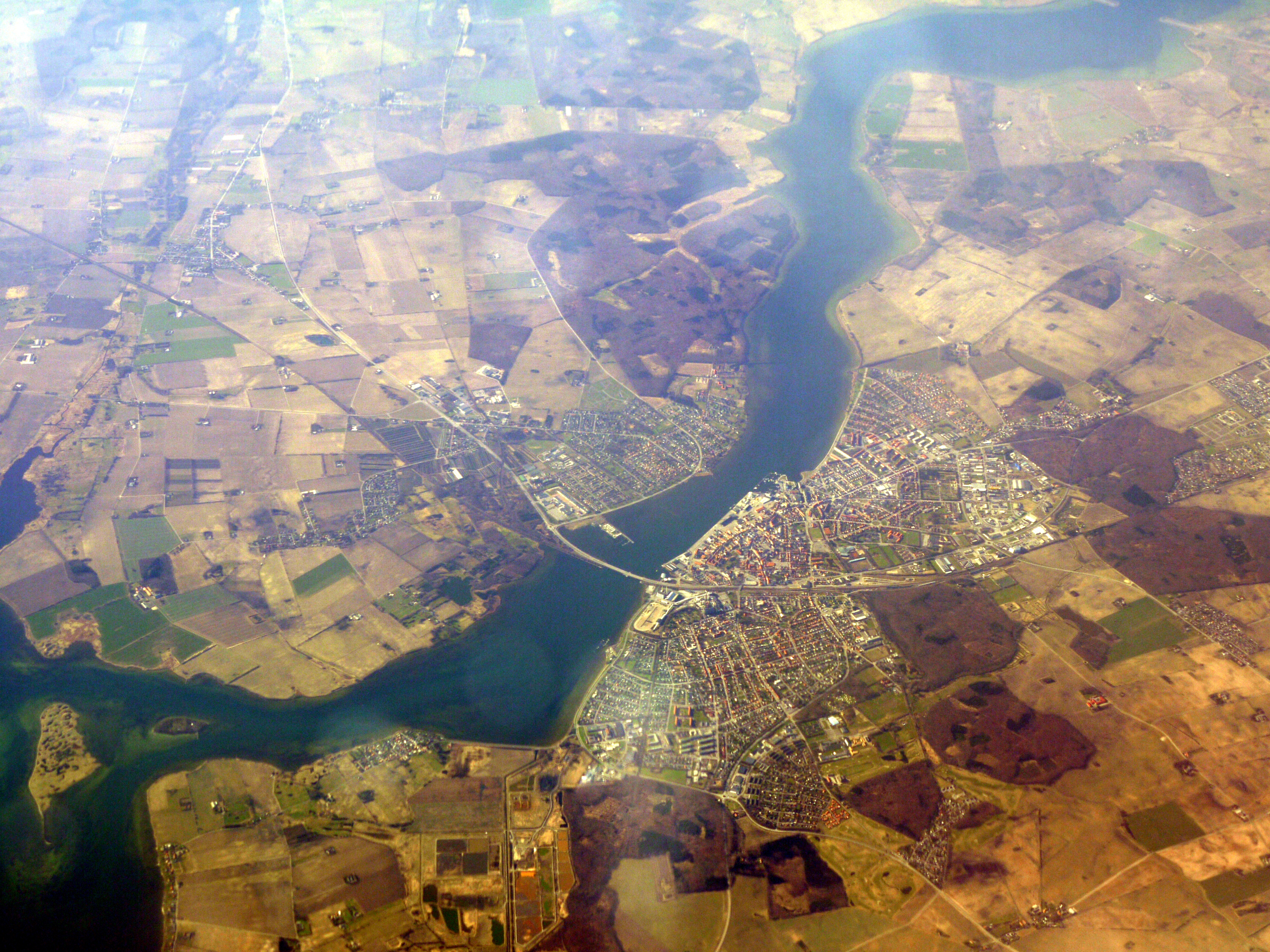 Nykøbing Falster, photograph taken from the sky, on the fly line between Marseille and Stockholm.